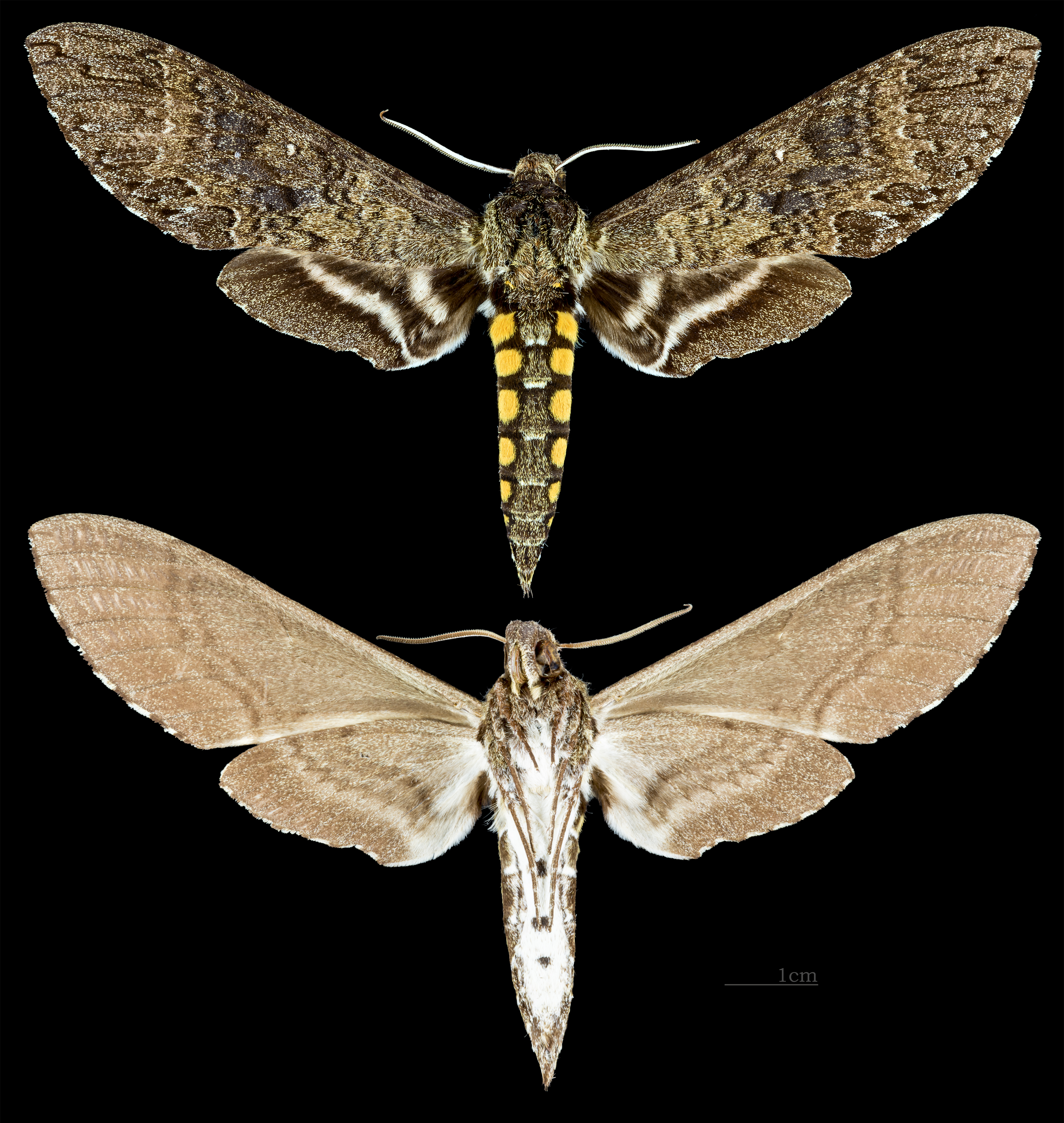 Manduca diffissa tropicalis - Two views of same specimen Collection of the Mathematician Laurent Schwartz